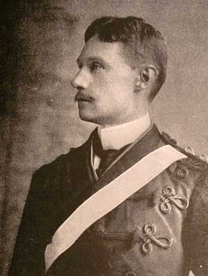 Portrait photograph of Thomas Pilcher, British Army officer, c. 1900